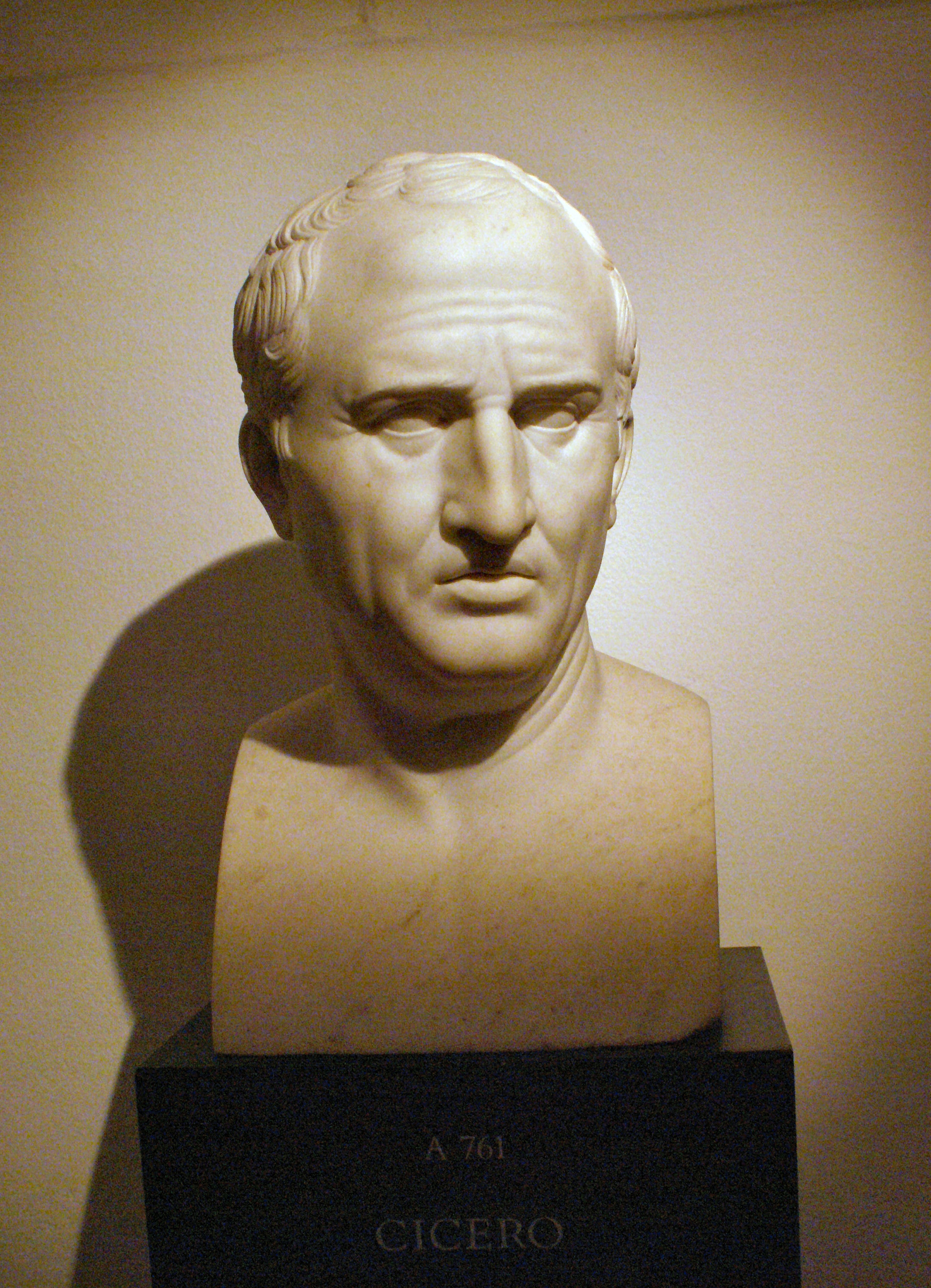 Marcus Tullius Cicero, by Bertel Thorvaldsen as copy from roman original, in Thorvaldsens Museum, Copenhagen